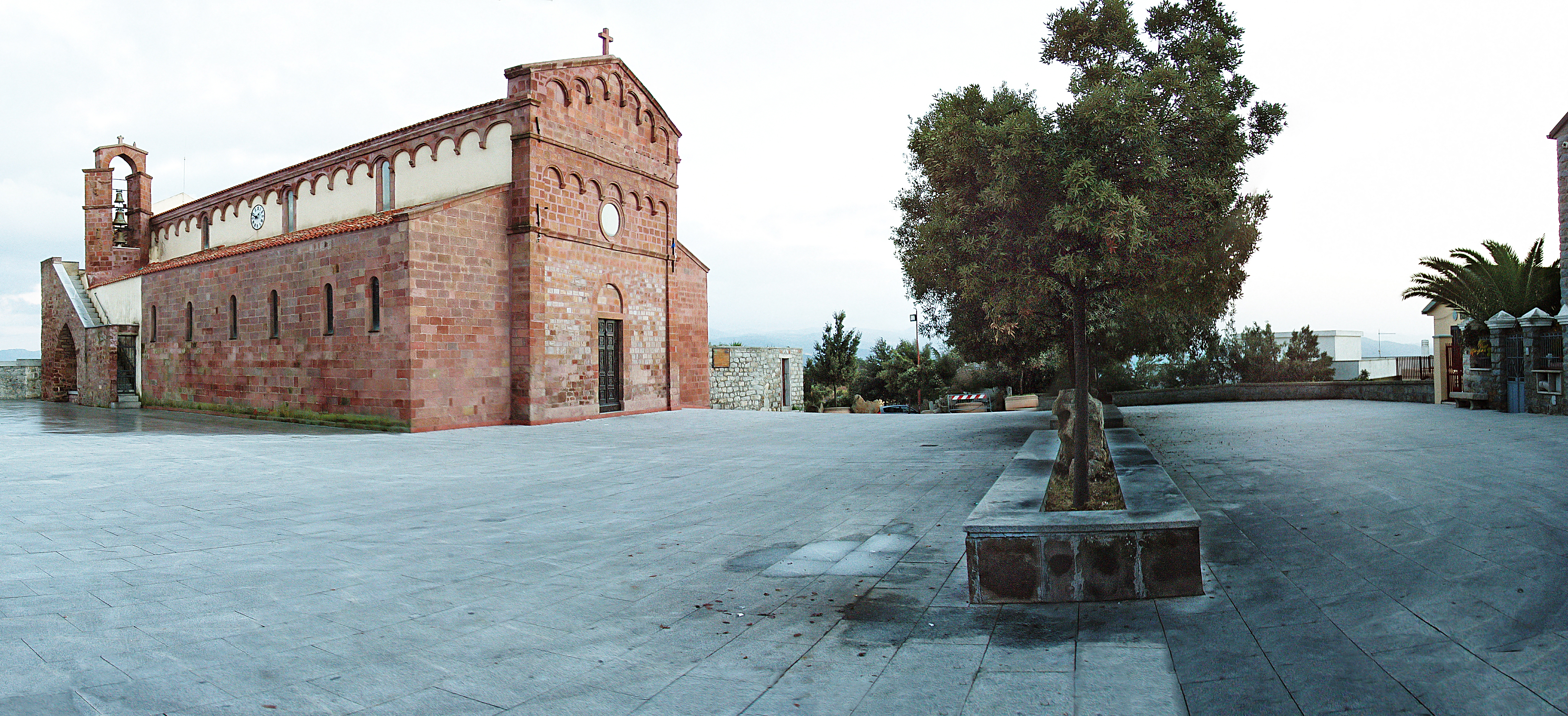 Church of St. John the Baptist in Orotelli